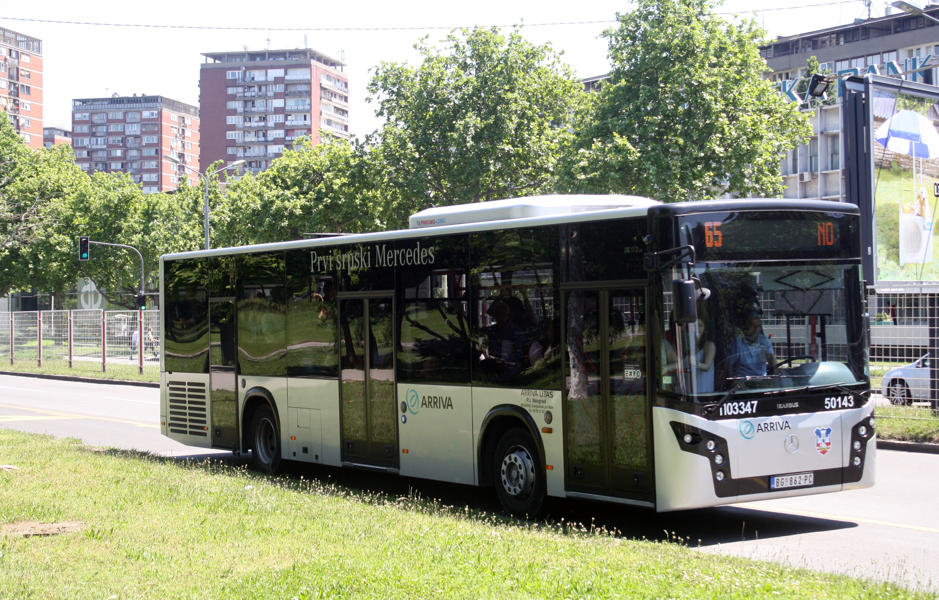 Ikarbus IK-112LE city bus of Arriva LITAS on line 65.